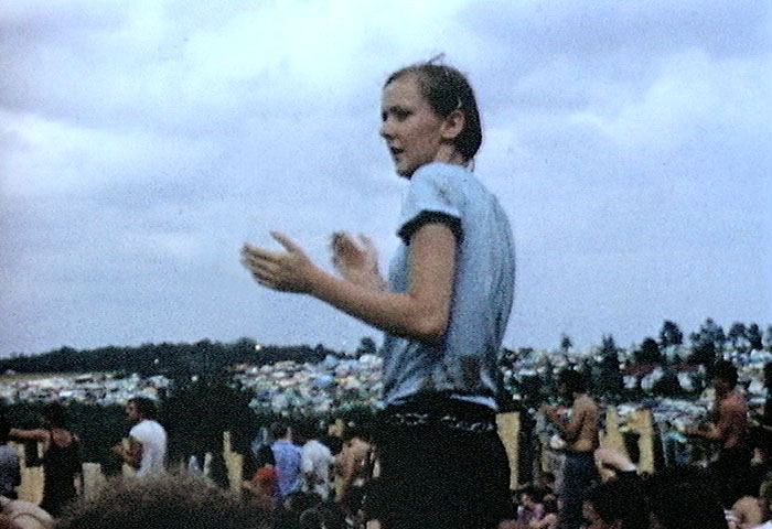 Audience member dances on Saturday night at the Woodstock Festival